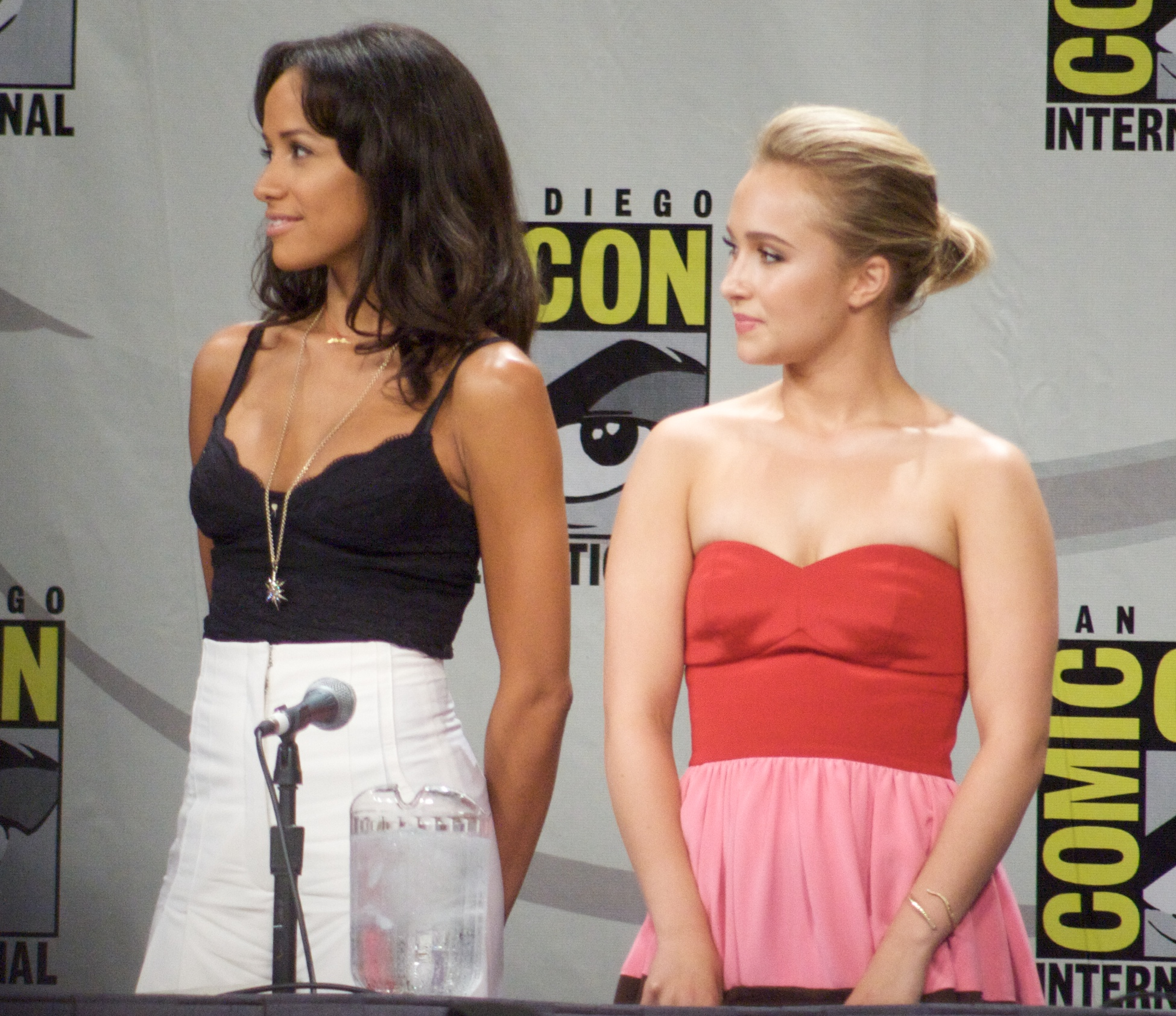 Dania Ramirez and Hayden Panetierre, Comic-Con 2018.